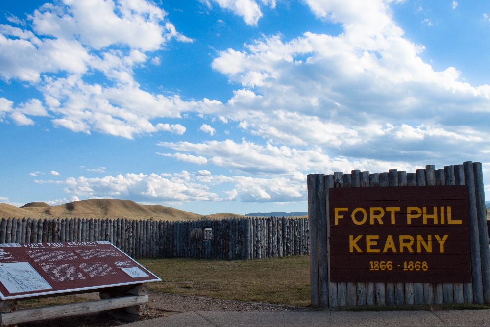 Fort Phil Kearny, Wyoming